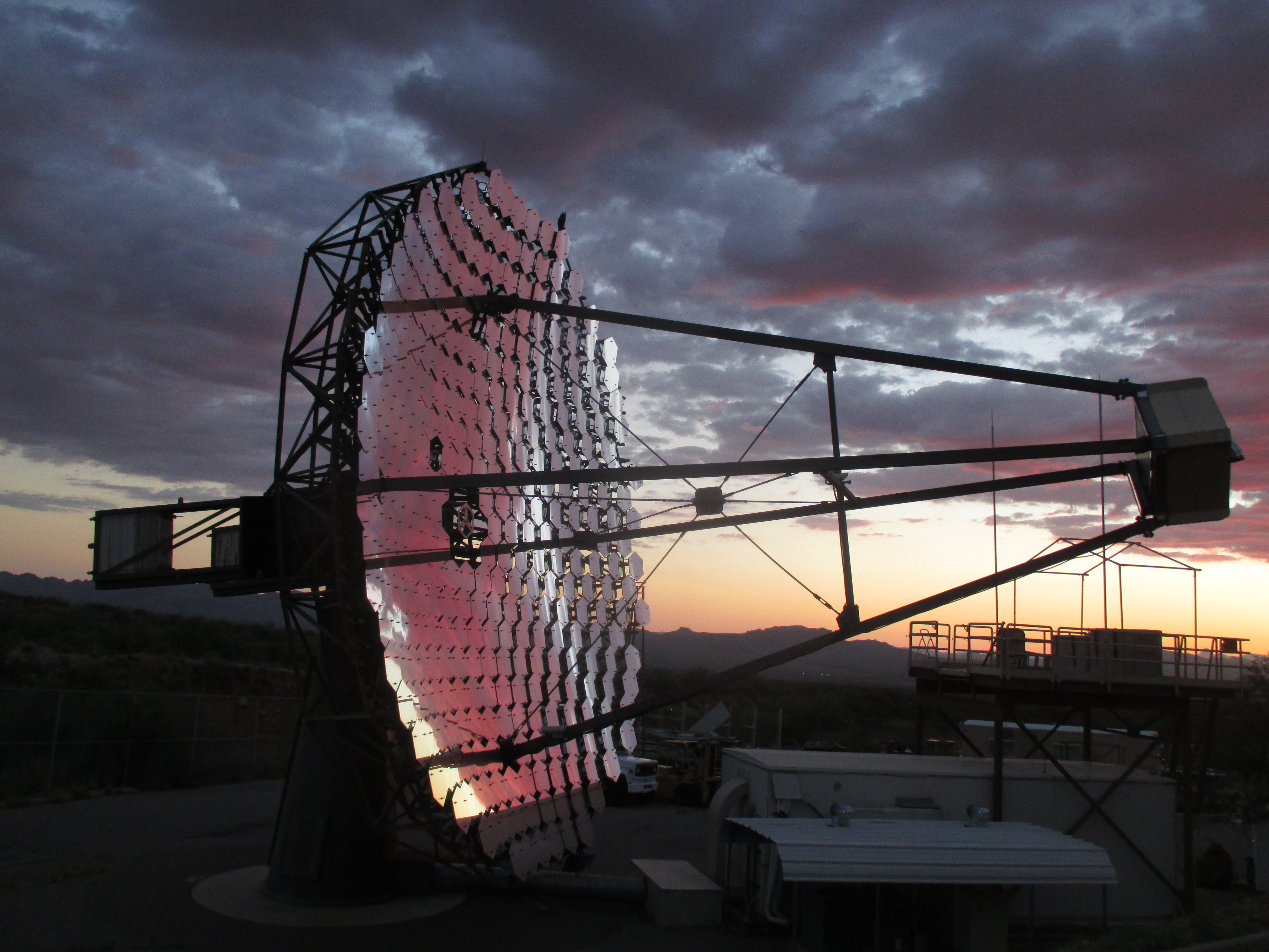 Telescope T2 of the VERITAS array